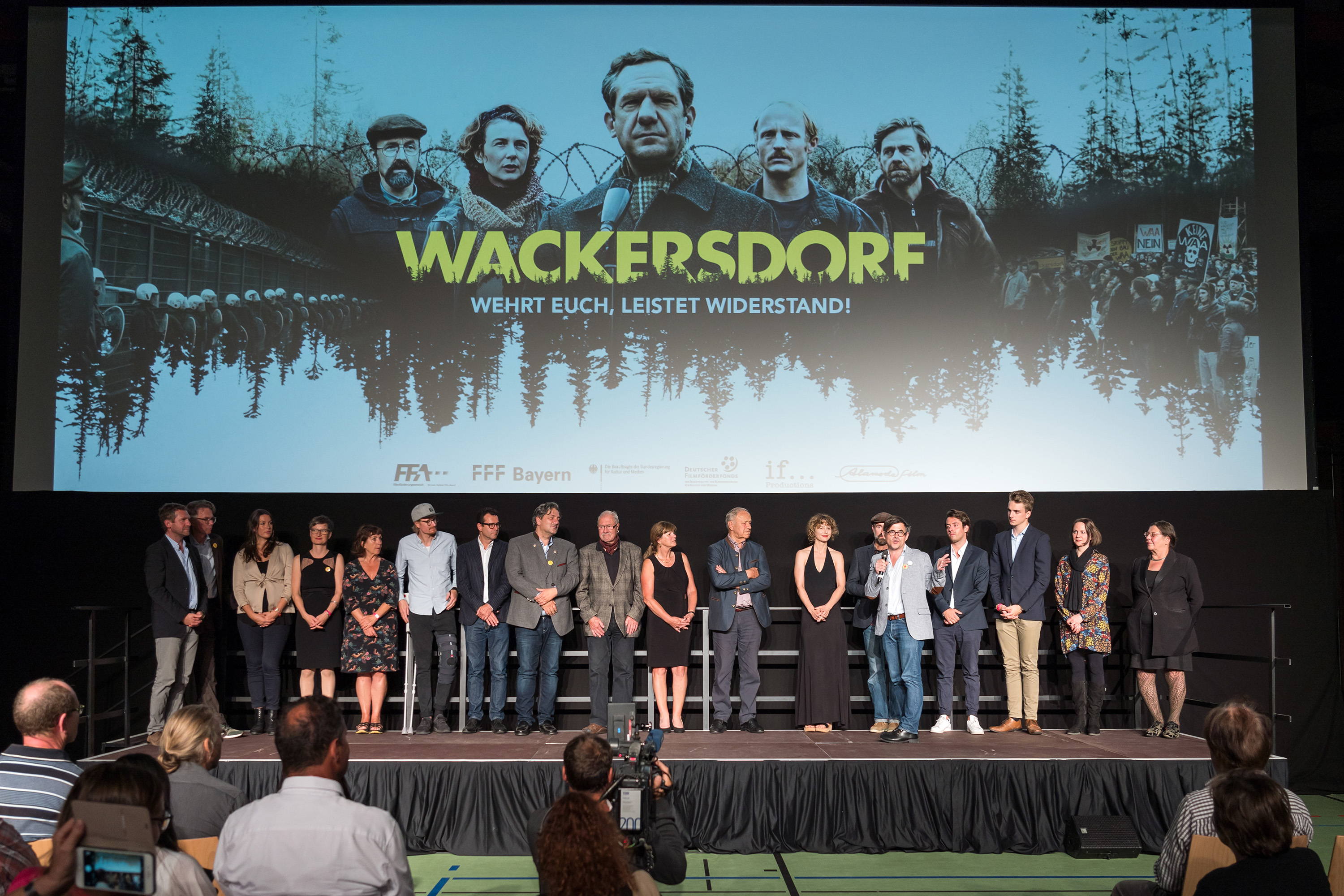 Actors, crew and contemporary witnesses at the German premiere of the movie "Wackersdorf"(Oberpfalzhalle Schwandorf; 19th September 2018)